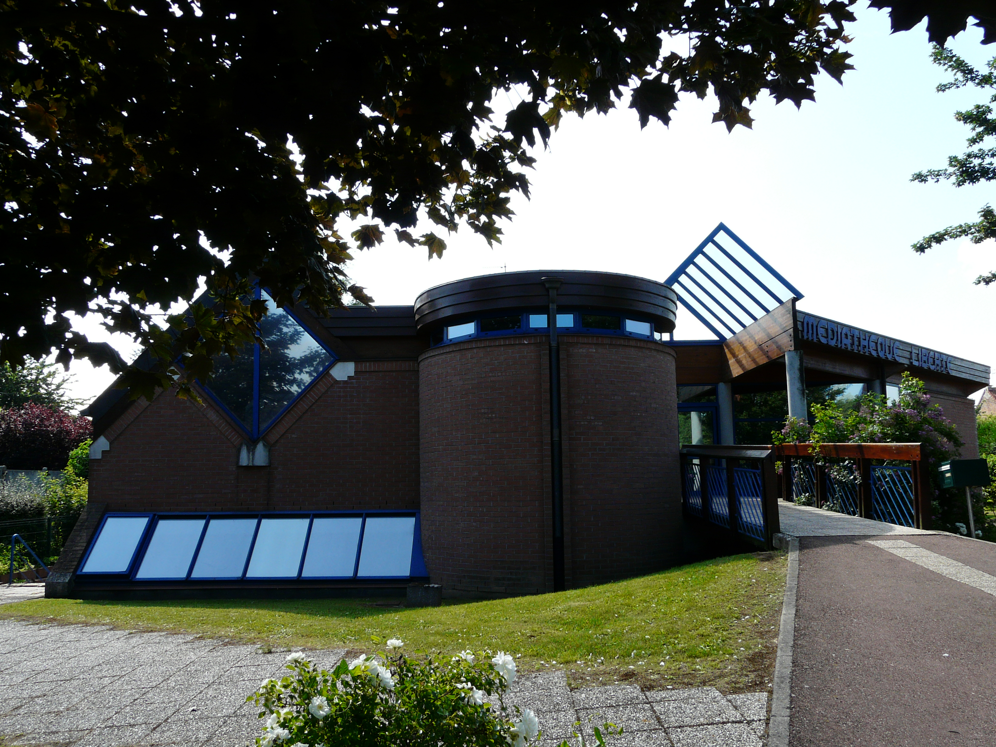 Public library in Escaudoeuvres (Nord, France)